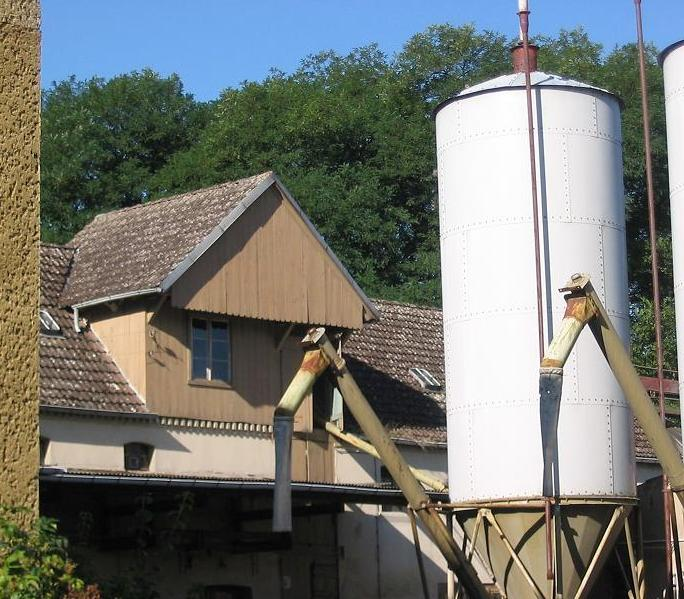 Shut downed "Old Mill" (water wheel) in Gömnigk. The village Gömnigk is a part of the town Brück in the district Potsdam Mittelmark, state Brandenburg, Germany, at the border to the natural preserve Naturpark Hoher Fläming.